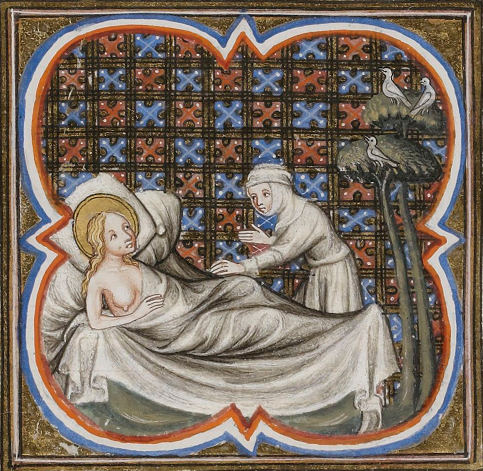 Elisabeth of Hungary.